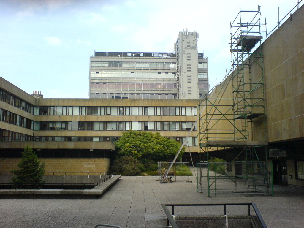 Appleton Tower, Edinburgh University, Bristo, Edinburgh; currently under renovation. Seen looming over the (rather more sensitive) courtyard of the David Hume Tower. Taken by the uploader (user KieranT) in response to a request for the image on the Wikipedia article about the tower. Licensed appropriately (CC-BY-SA-2.5).